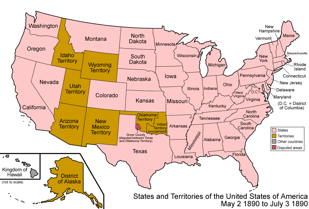 Map of the states and territories of the United States as it was from May 1890 to July 3 1890. On May 2 1890, Oklahoma Territory was organized, including the Neutral Strip. On July 3 1890, Idaho Territory was admitted as the state of Idaho.